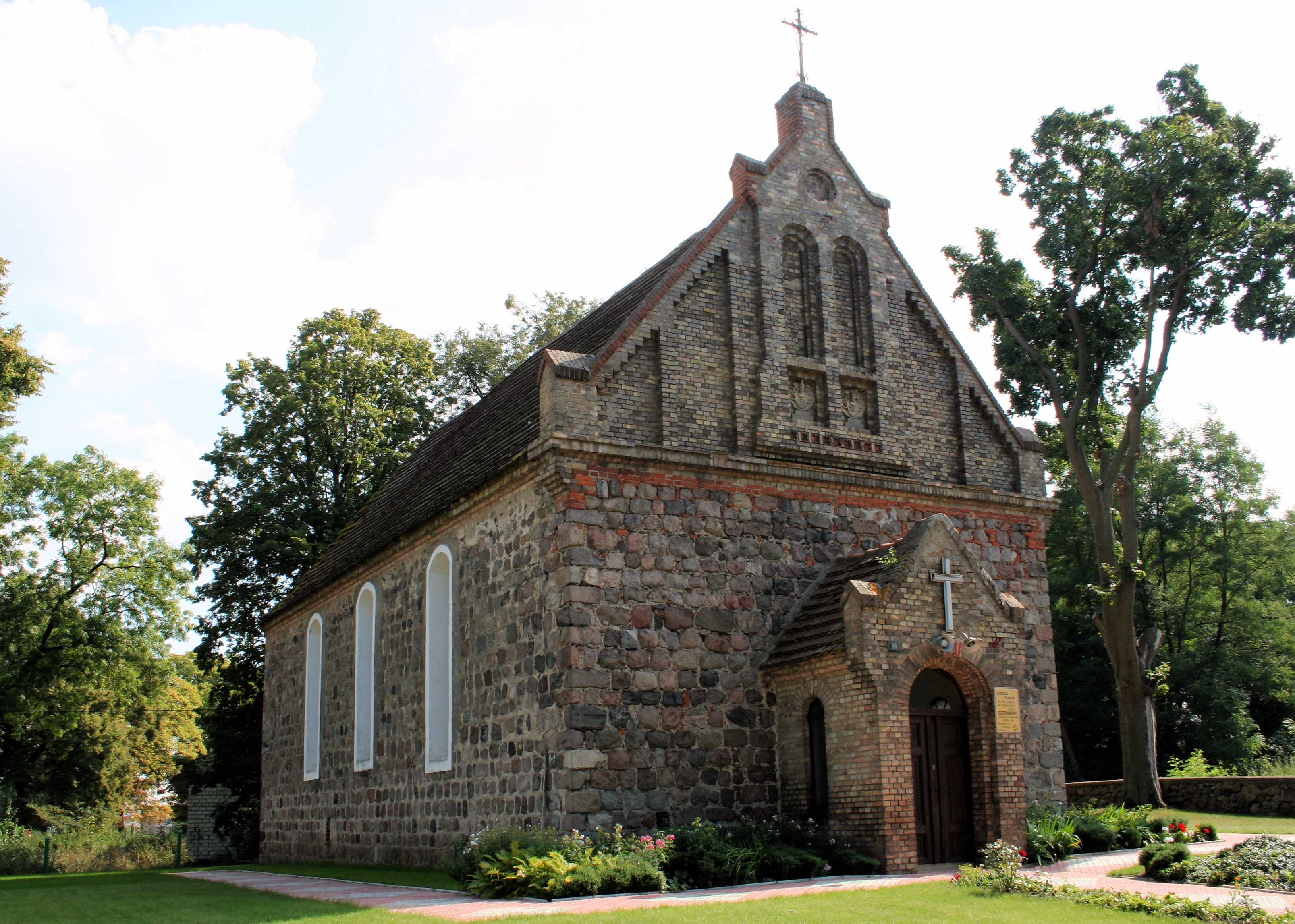 Saint Theresa of the Infant Jesus Church in Czerników, Zachodniopomorskie Voivodeship